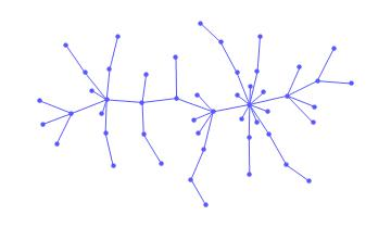 Network generated by the algorithm of the Barabasi Albert model